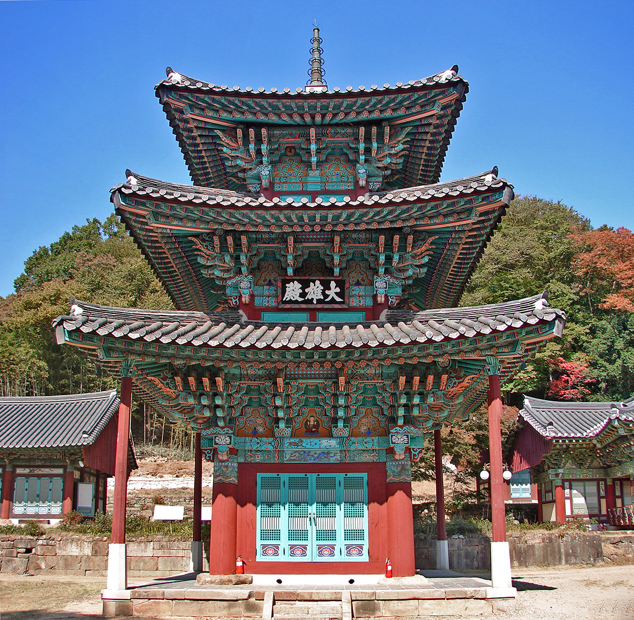 Ssangbongsa, or Ssangbong Temple (Ssang means 'twin' and Bong means 'peak' ), derives its name from the pair of twin peaks on the mountain behind this Buddhist temple. Ssangbongsa in located in Hwasun County, South Jeolla Province, South Korea. Ssangbongsa was built by Zen Priest Cheolgam in 868 during the Unified Silla Period.